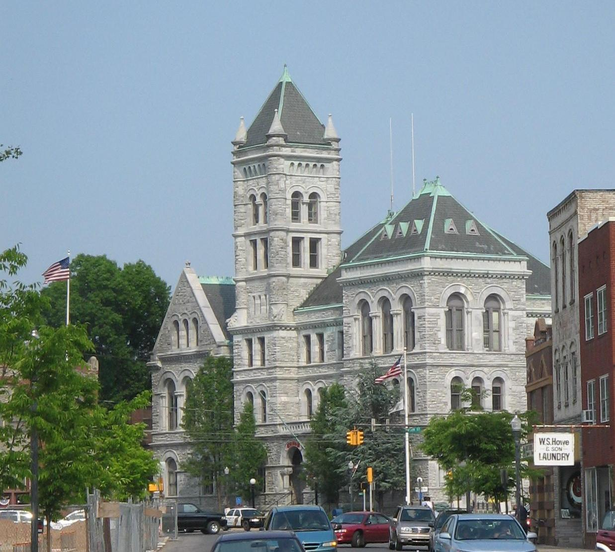 City Hall, West 4th Street between Government Place and West Street, Williamsport, Pennsylvania, USA. This was built as the US Post Office and is on the National Register of Historic Places (NRHP), although it was still the Post Office when it was listed on the NRHP.